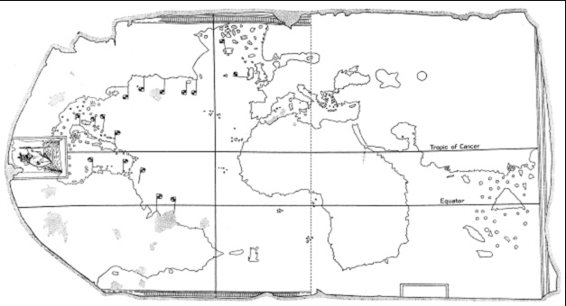 Map by Juan de la Cosa, 1500. Outline by Arthur Davies (1976).